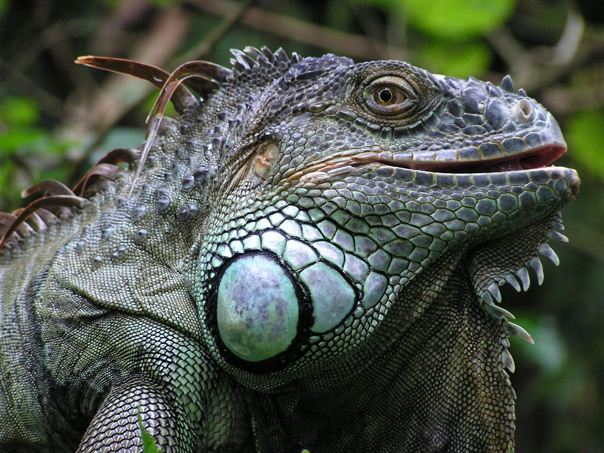 Common Green Iguana